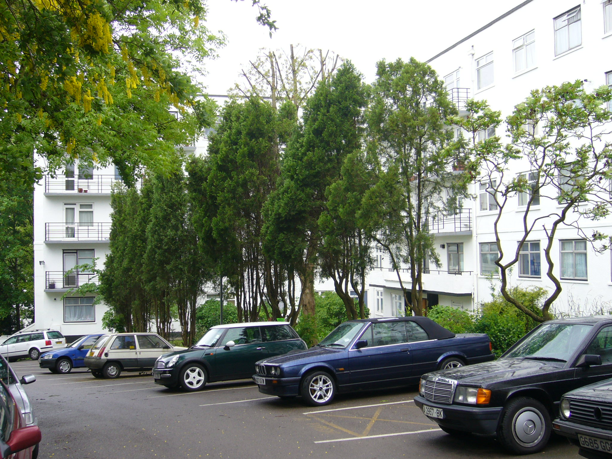 Forest Croft at grid reference TQ349728 at the top of Taymount Rise, Forest Hill, Lewisham.